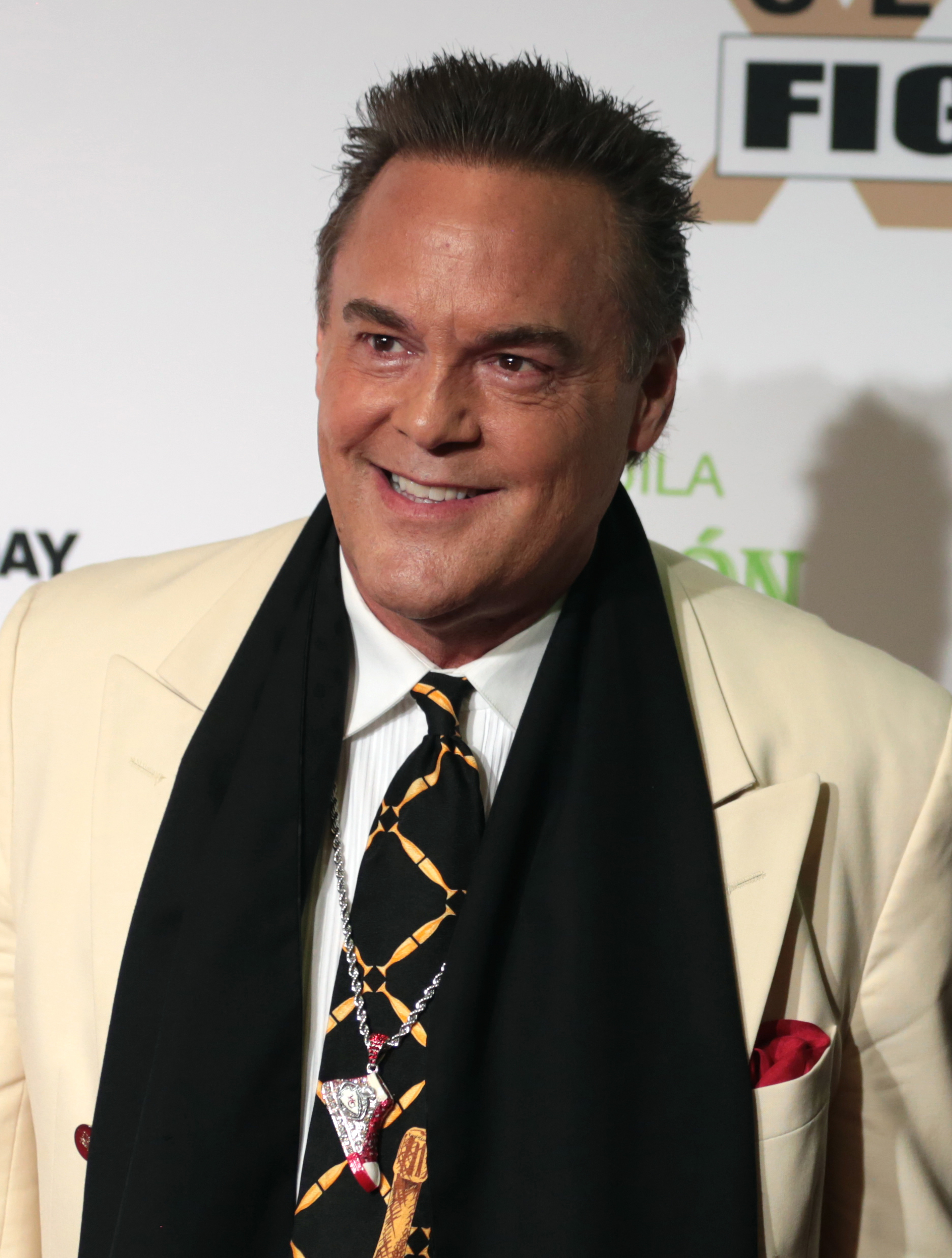 Nick Lowery at Celebrity Fight Night XXIV in Phoenix, Arizona.